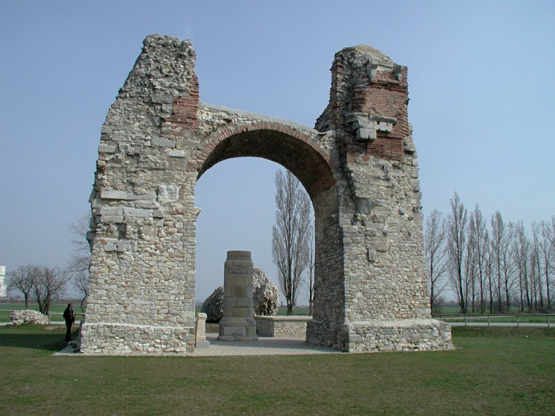 The ruin of the Heidentor (Pagan gate) in Carnuntum.